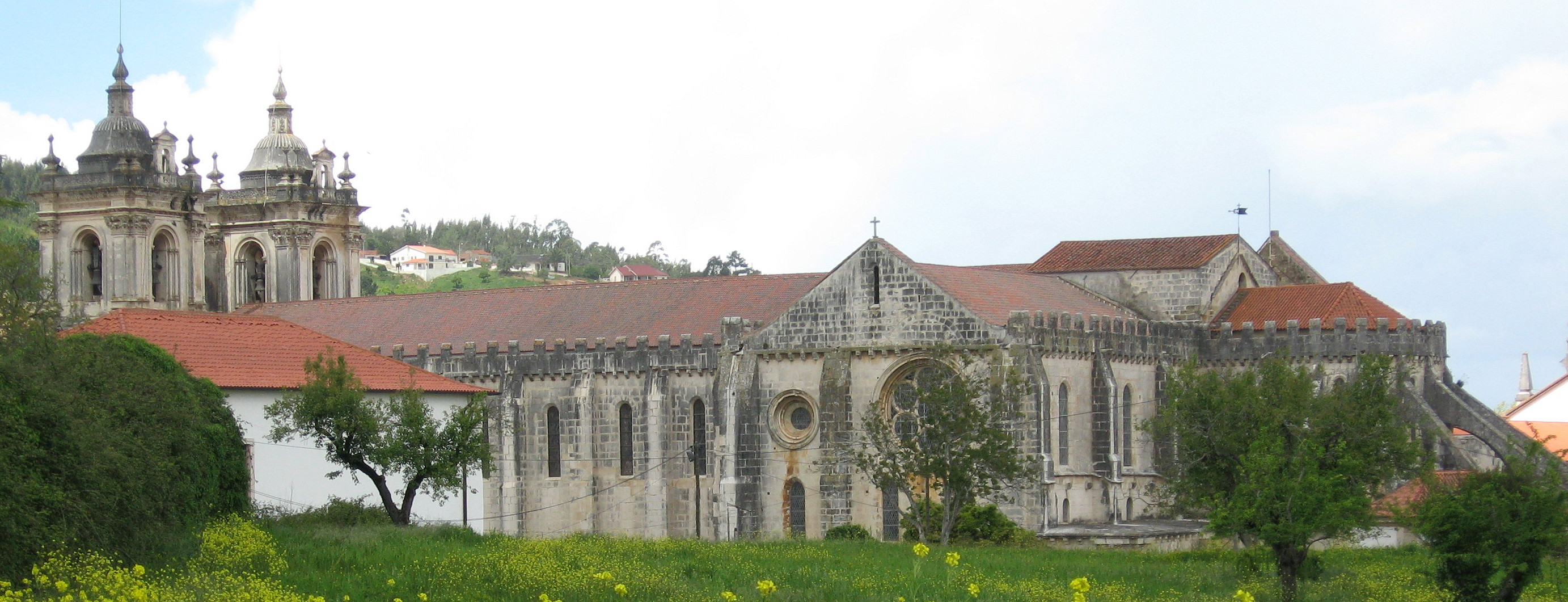 Mosteiro de Alcobaça, church with transept, from the south